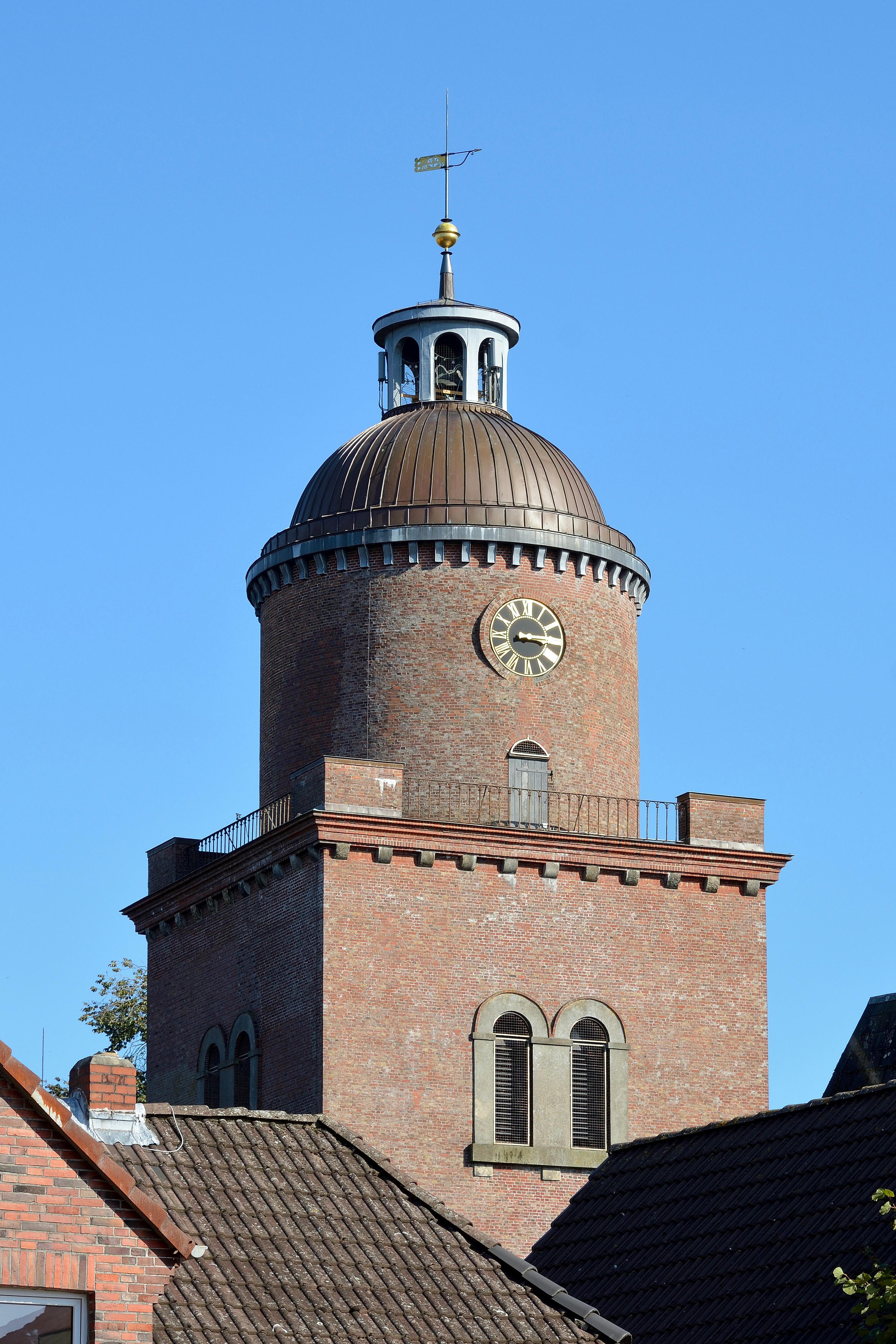 Krempe (Schleswig-Holstein, Germany),Tower of the church , photo 2016